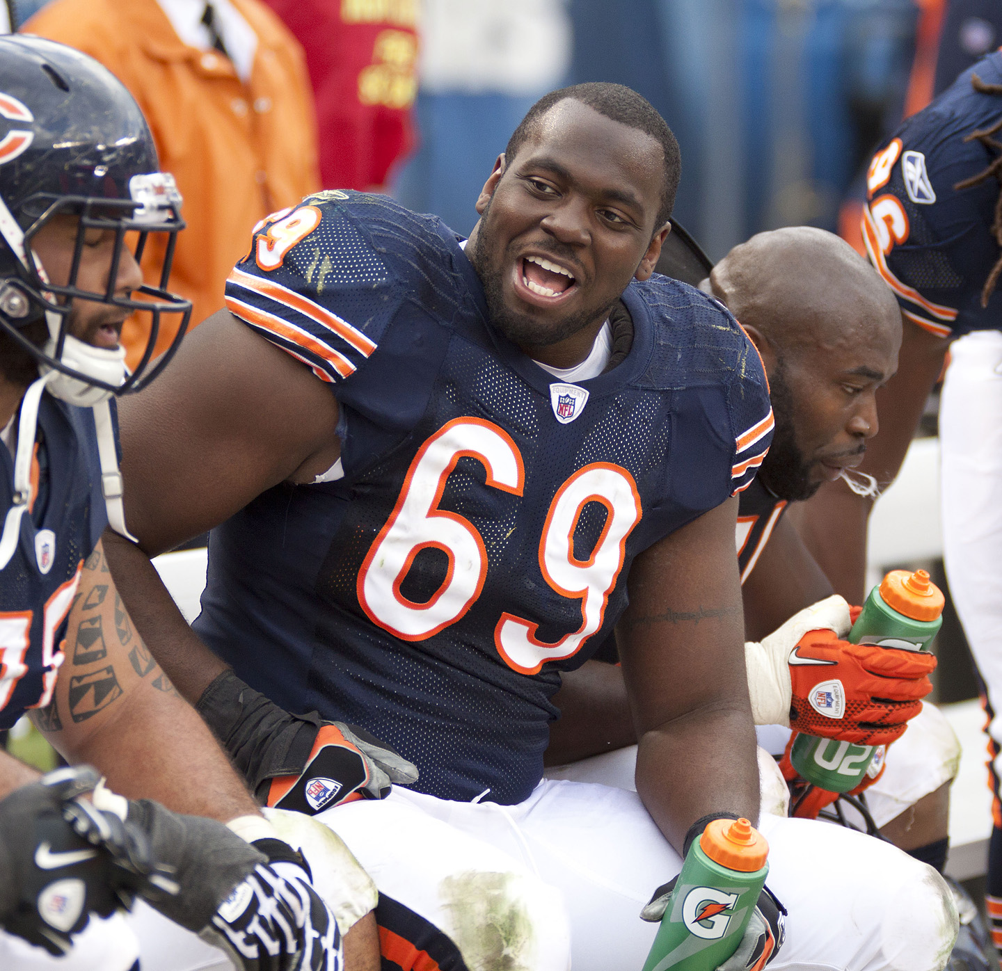 HENRY MELTON, of the Chicago Bears, in action during a Bears game at Soilder Field.